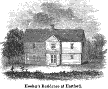 Print of the home of Puritan Rev. Thomas Hooker at Hartford, Connecticut.